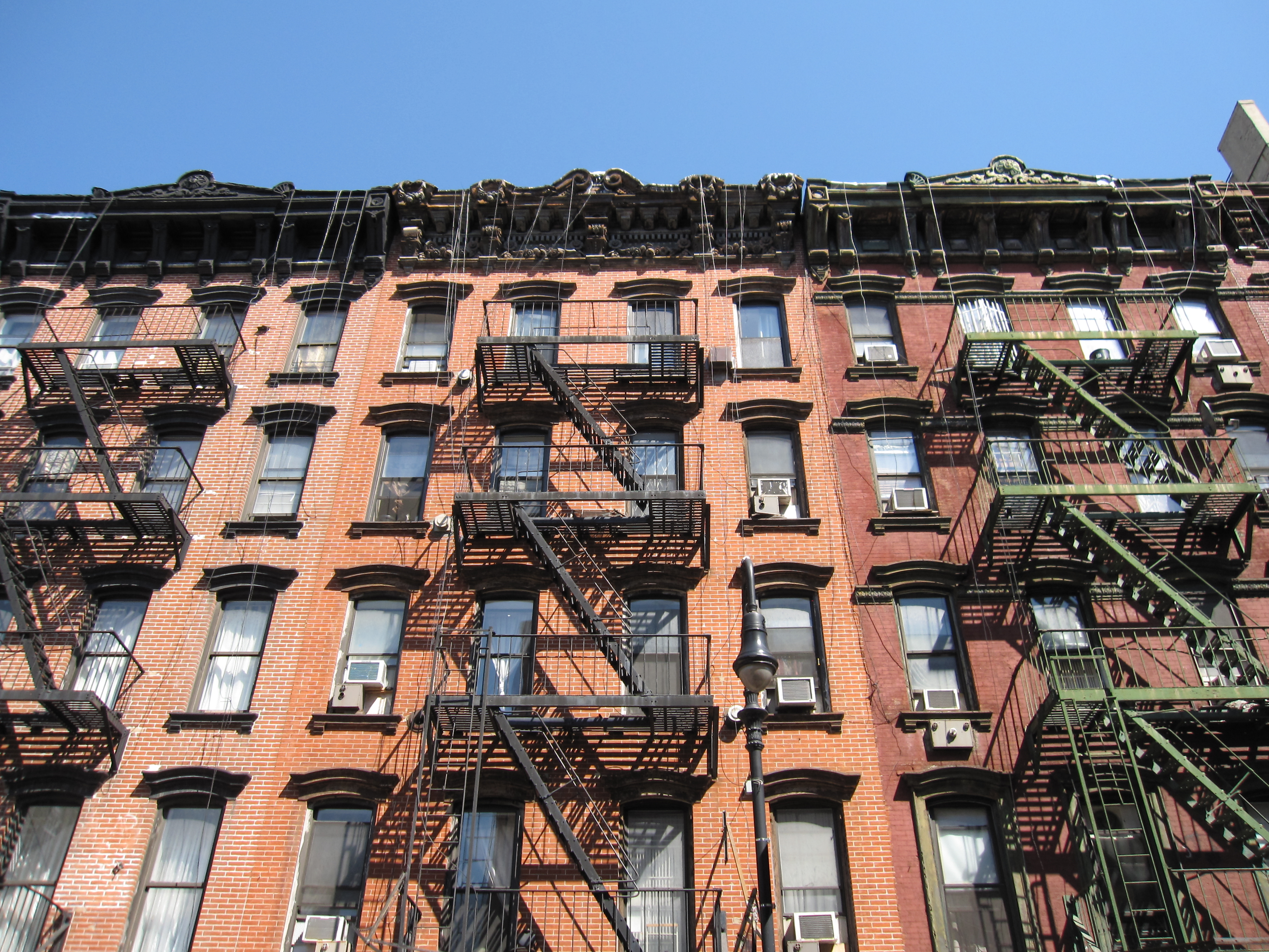 Closeup view of old houses on Orchard Street, close to Rivington Street.